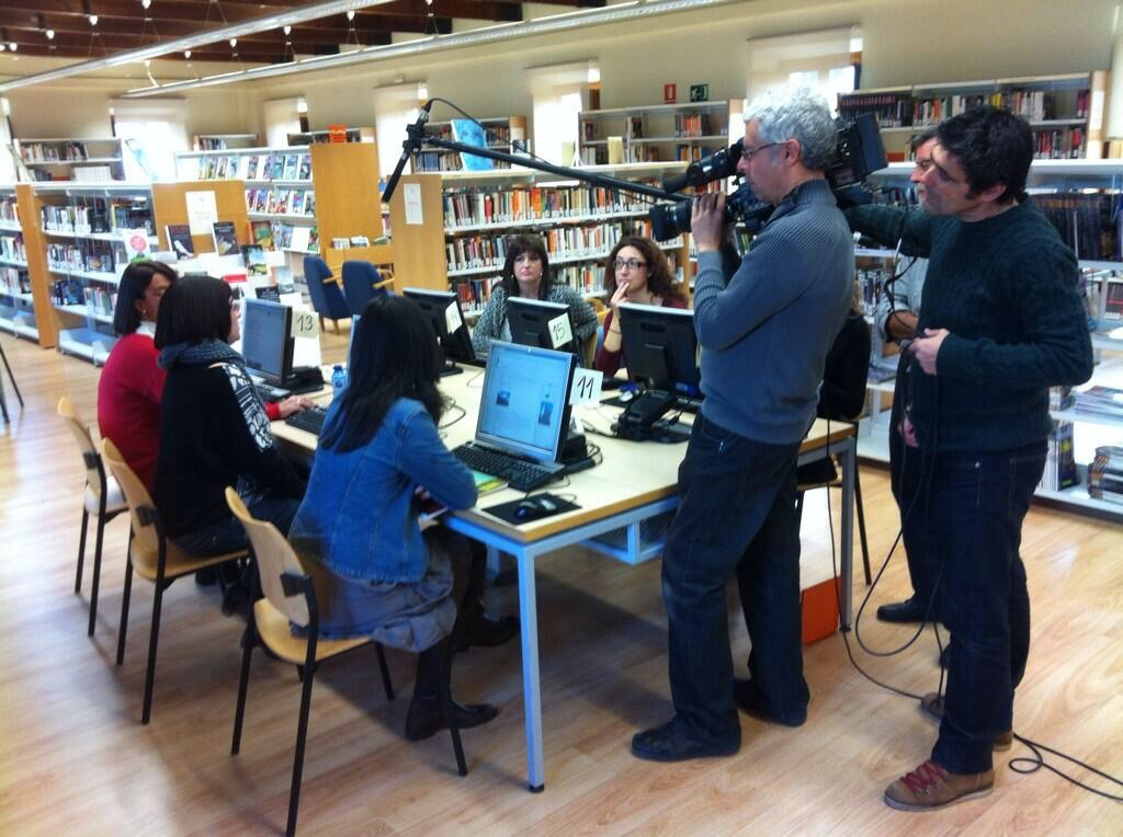 TV3 a Biblioteca Roquetes enregistrant programa 30 minuts viquipedistes